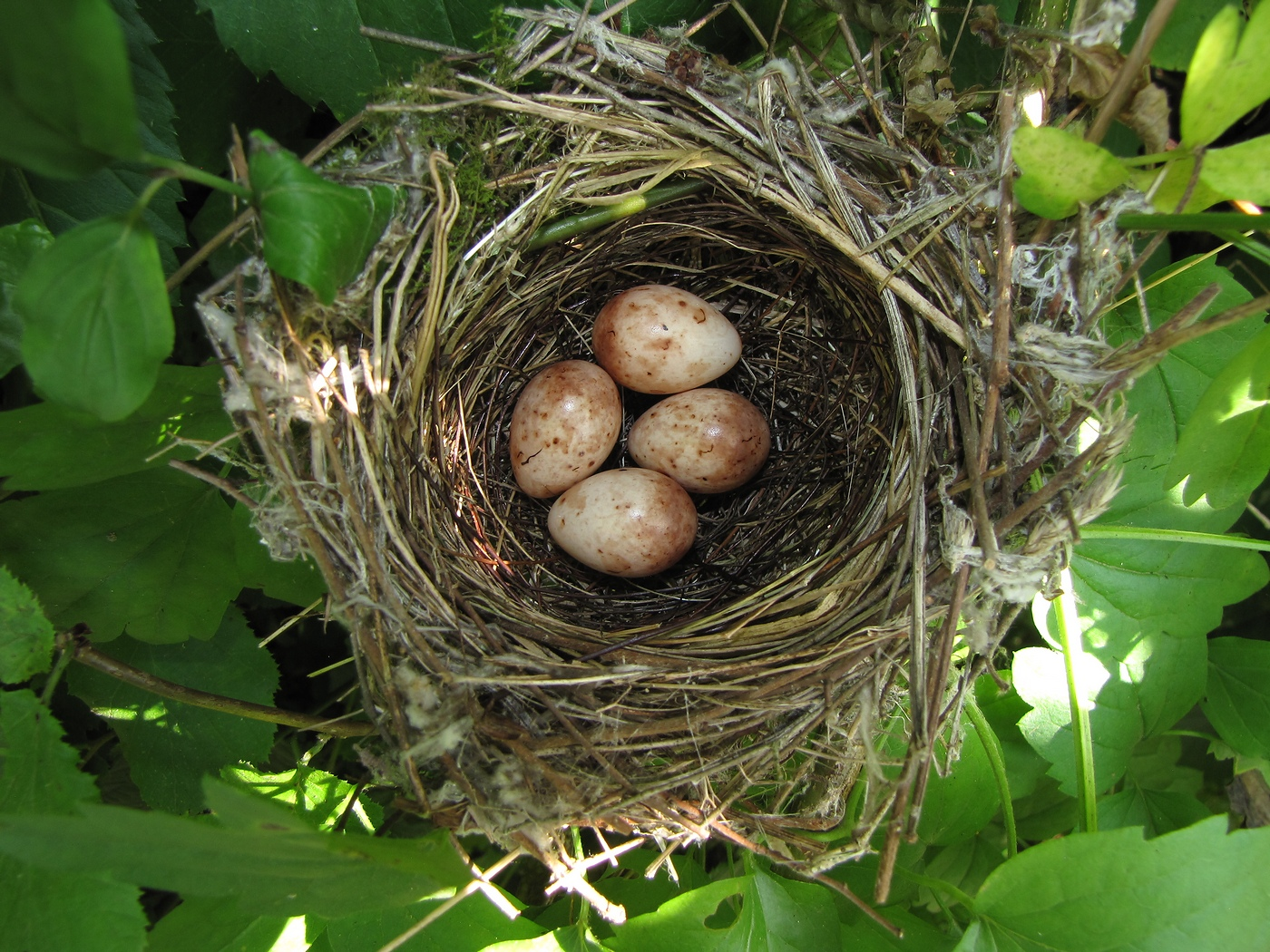 Eurasian blackcap nest